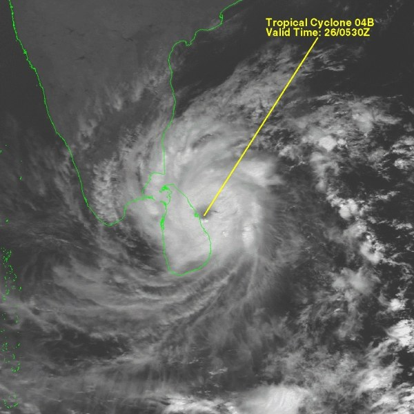 75 mph Cyclone 4B near its Sri Lanka landfall at 0530 UTC.